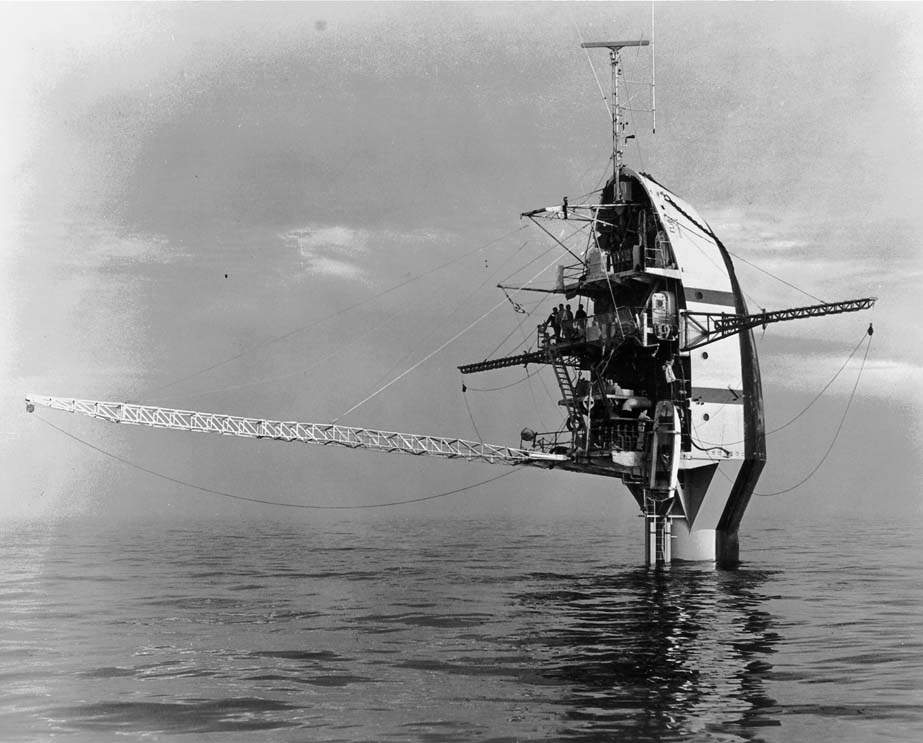 FLIP Floating Instrument Platform is a 355-long floating oceanographic instrument platform It is towed in a horizontal position to its destination behind a ship, then its ballast tants are flooded and it tilts to an upright position. All but 55-feet of its length disappears below the water, providing an extremely stable platform. Since 1962, FLIP has been used for a broad range of oceanographic research including wave attenuation sound propagation, scattering, and reverberation seismic wave recording and, measurement of internal waves. FLIP resides at the Scripps Institution of Oceanography.